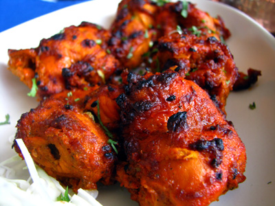 Chicken tikka